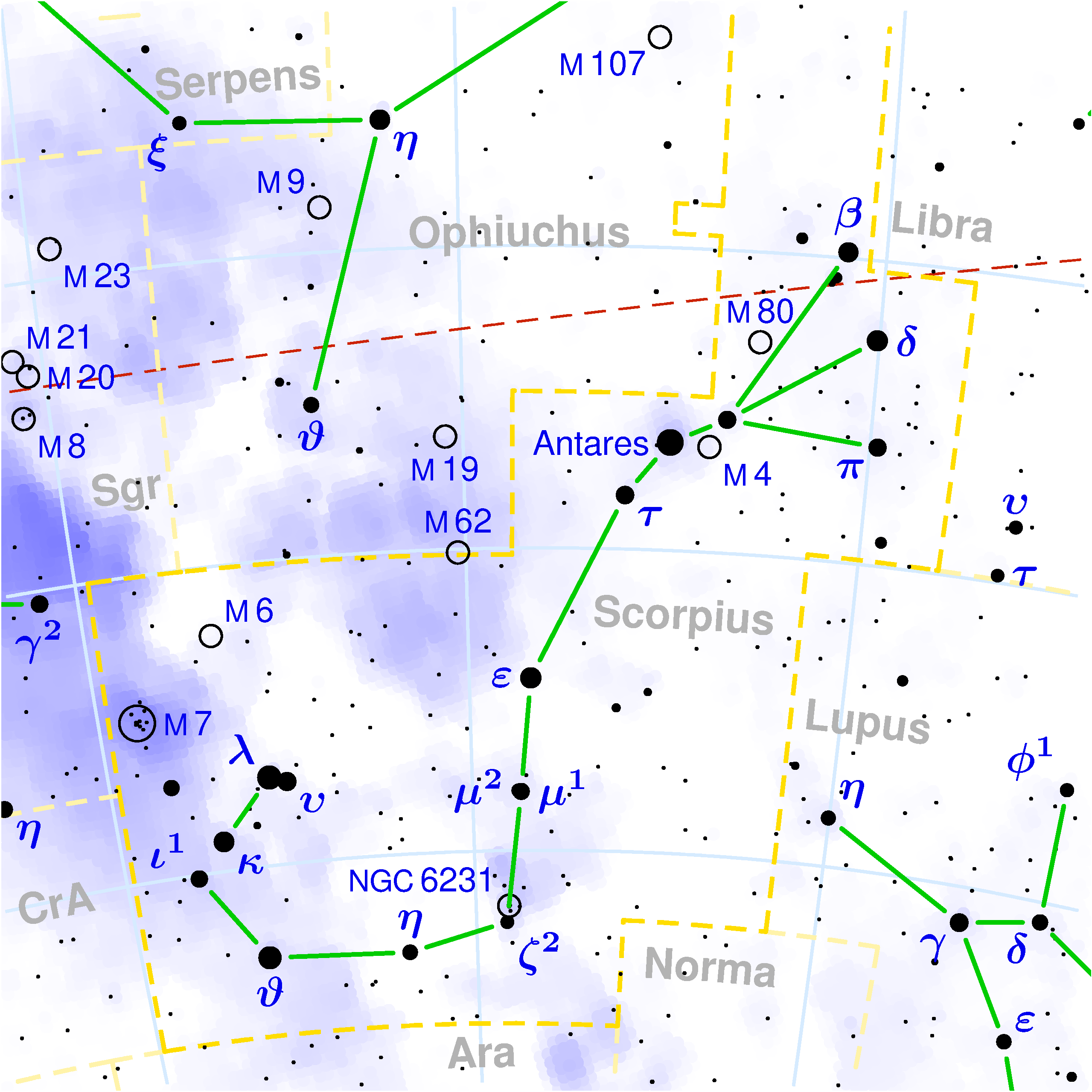 This is a celestial map of the constellation Scorpius, the Scorpion. The yellow dashed lines are constellation boundaries, the red dashed line is the ecliptic, and the shades of blue show Milky Way areas of different brightness. The map contains all Messier objects, except for colliding ones. The underlying database contains all stars brighter than 6.5. All coordinates refer to equinox 2000.0. The map is calculated with the equidistant azimuthal projection (the zenith being in the center of the image). The north pole is to the top. The (horizontal) lines of equal declination are drawn for 0°, ±10°, ±20° etc. The lines of equal right ascension are drawn for all 24 hours. Towards the rim there is a very slight magnification (and distortion).